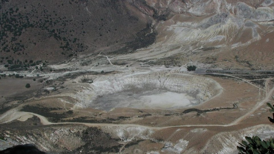 Stefanos, the largest crater on Nisyros Stefanos means "wreath" in Greek